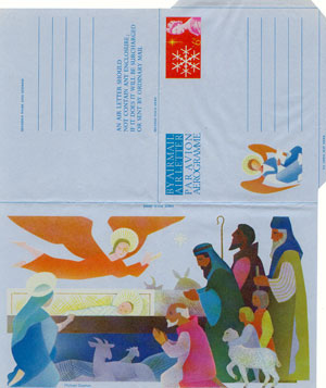 GB Christmas Aeogram (one of two issued in 1967)